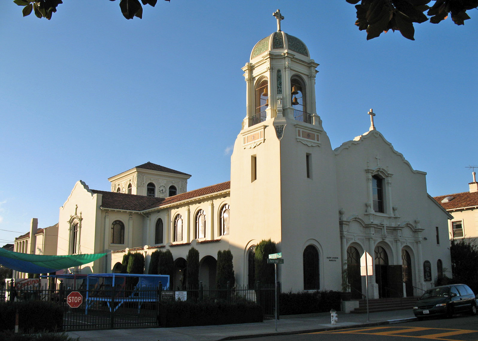 National Register of Historic Places listings in Alameda County, California. St. Joseph's Basilica, 1109 Chestnut St., Alameda, California, USA. Photographed 2008-10-04 from the northwest corner of Chestnut St. and San Antonio Ave.